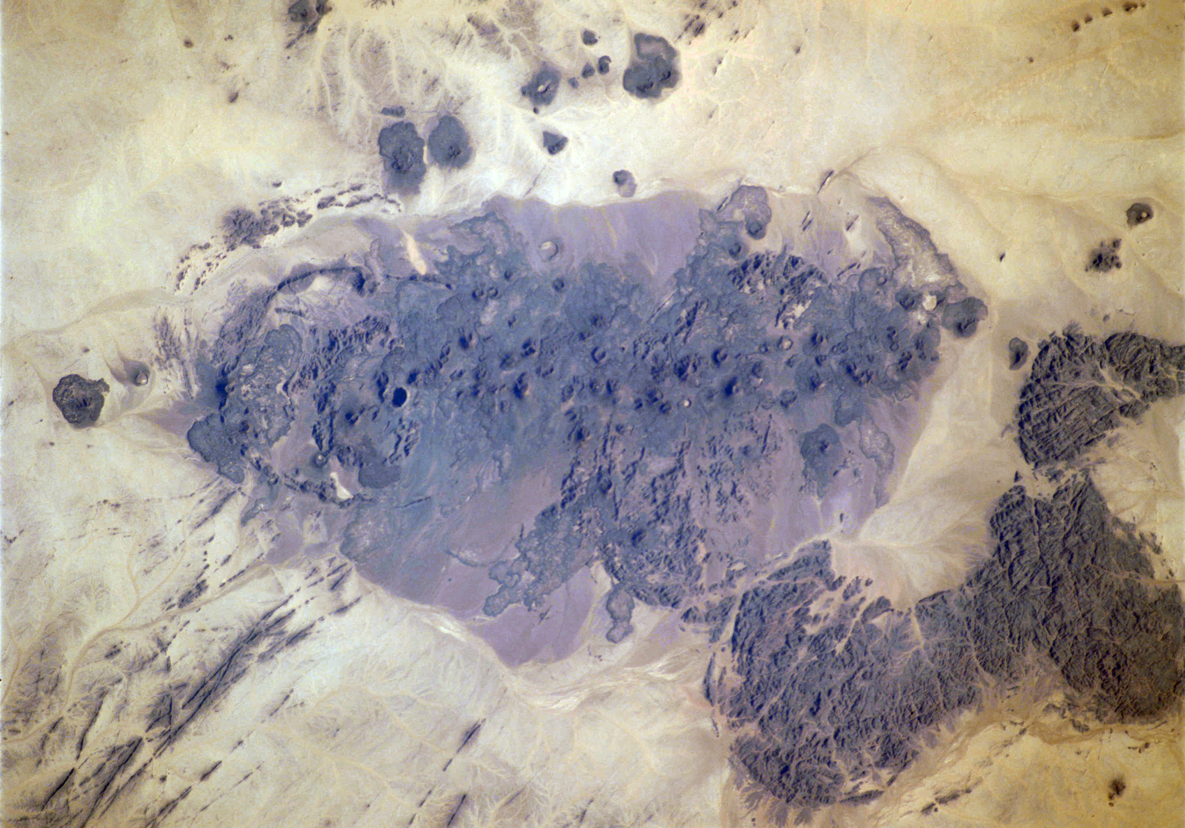 The Bayuda volcanic field is located near the center of the Bayuda desert of NE Sudan. The numerous small cinder cones that trend horizontally across the center of the volcanic field in this Space Shuttle image were erupted along a WNW-trending line. Lava flows, one of which was erupted about 1100 years ago, are visible in this image, but about 10% of the vents are explosion craters. Bayuda was constructed over Precambrian and Paleozoic granitic rocks, which form the darker areas at the lower right.